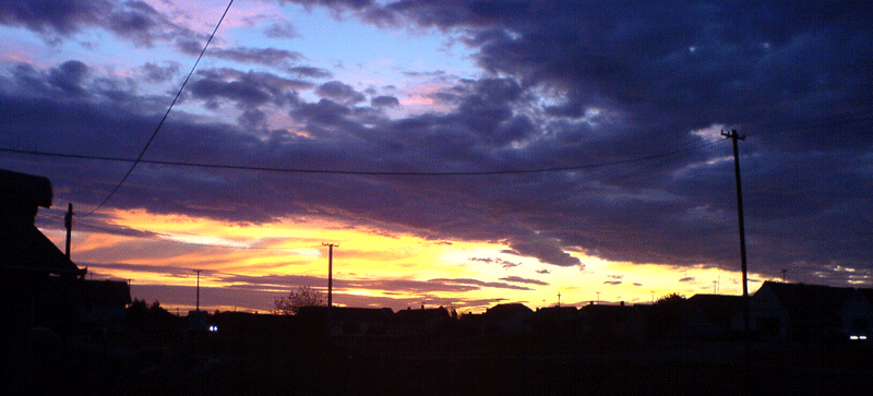 Morning in Slavonia